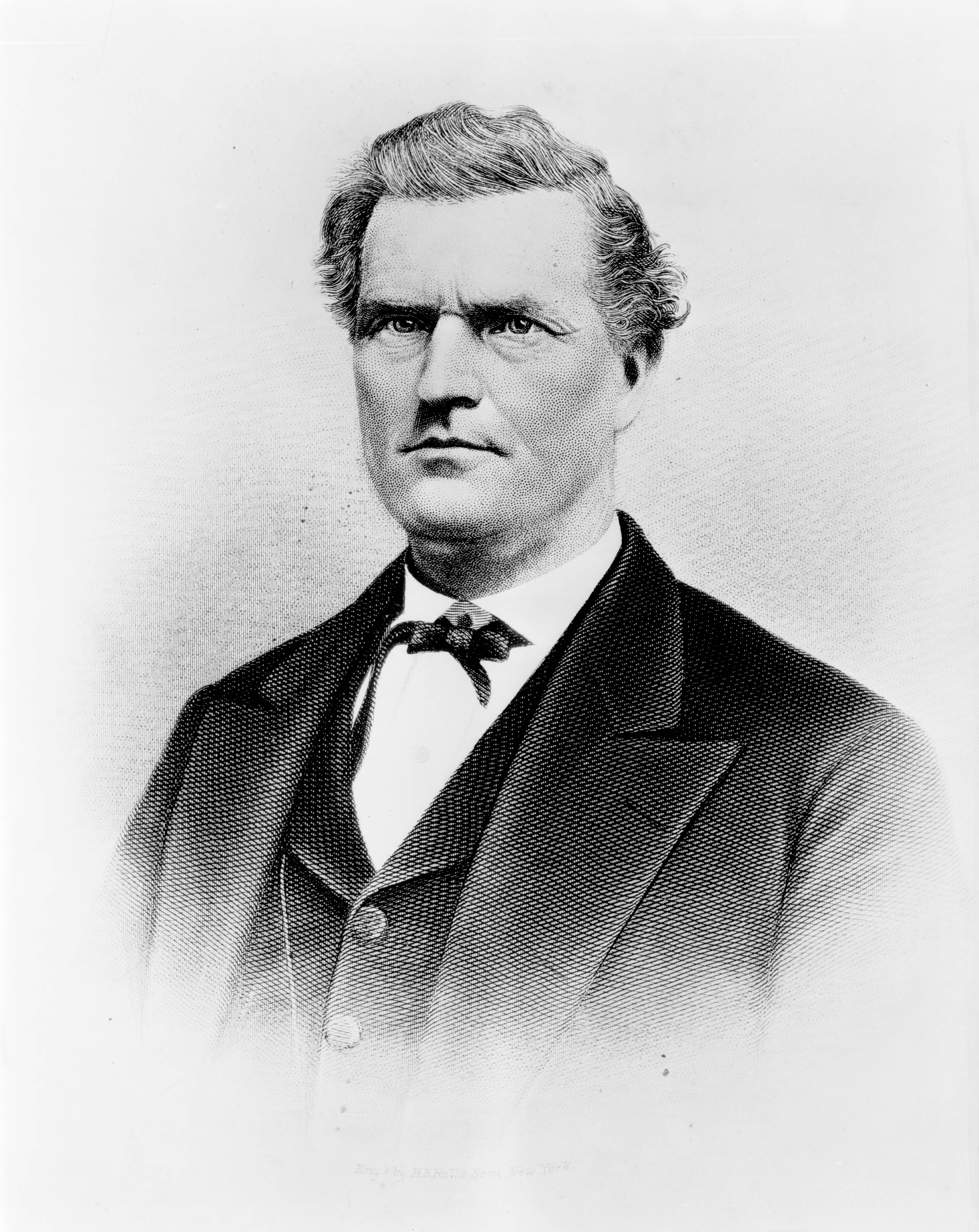 Portrait of Senator Charles Maclay, San Fernando Valley, California, [s.d.]. Photograph of a portrait of Senator Charles Maclay, San Fernando Valley, California, [s.d.]. The land owner and founder of the town of San Fernando can be seen in bust. He can be seen wearing a dark jacket, vest and bowtie. His face appears strong and vibrant, showing signs of aging no older than his late forties. His eyes are deep-set and intense, and his salt-and-pepper hair is full and quaffed to the left.